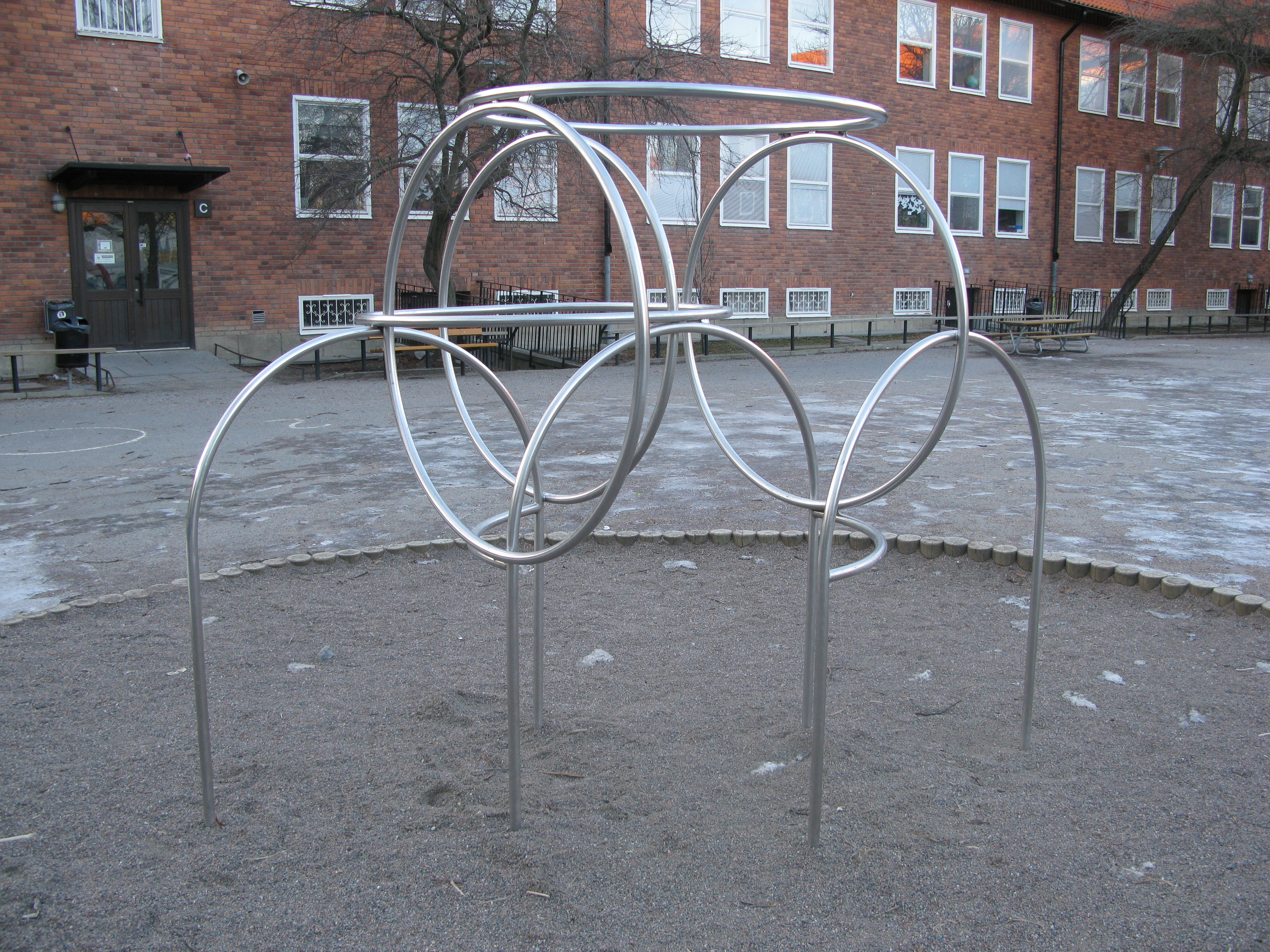 A jungle gym at a school yard at Gärdet in Stockholm, Sweden, 2011